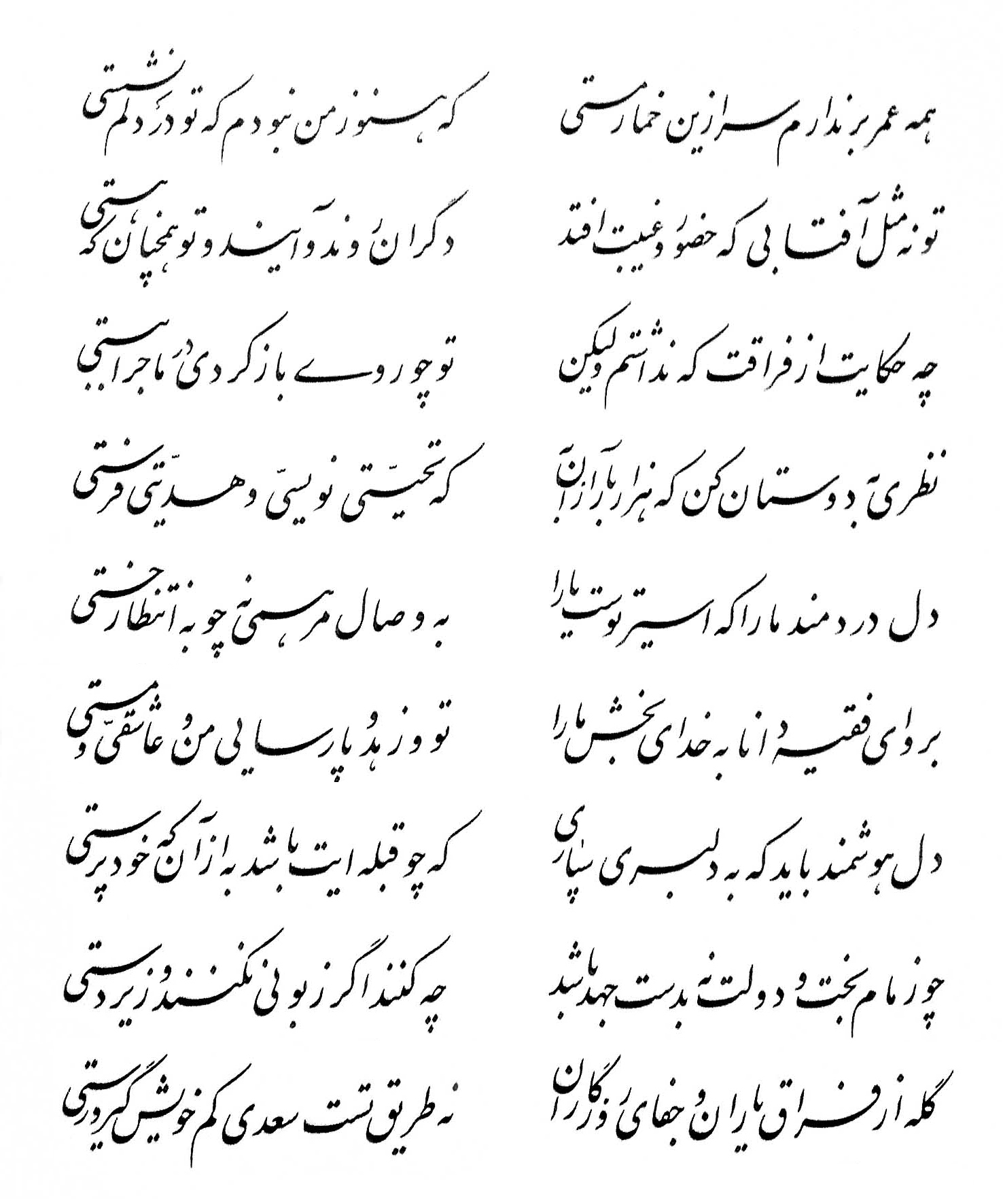 Persian Calligraphy of a poem of Sa'di, Nastaliq